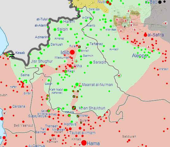 Front lines of Idlib Governorate as of 29 March 2014 Controlled by pro-Assad forces Controlled by Kurdish forces Controlled by ISIS forces The disputed frontline between the forces Controlled by anti-Assad forces